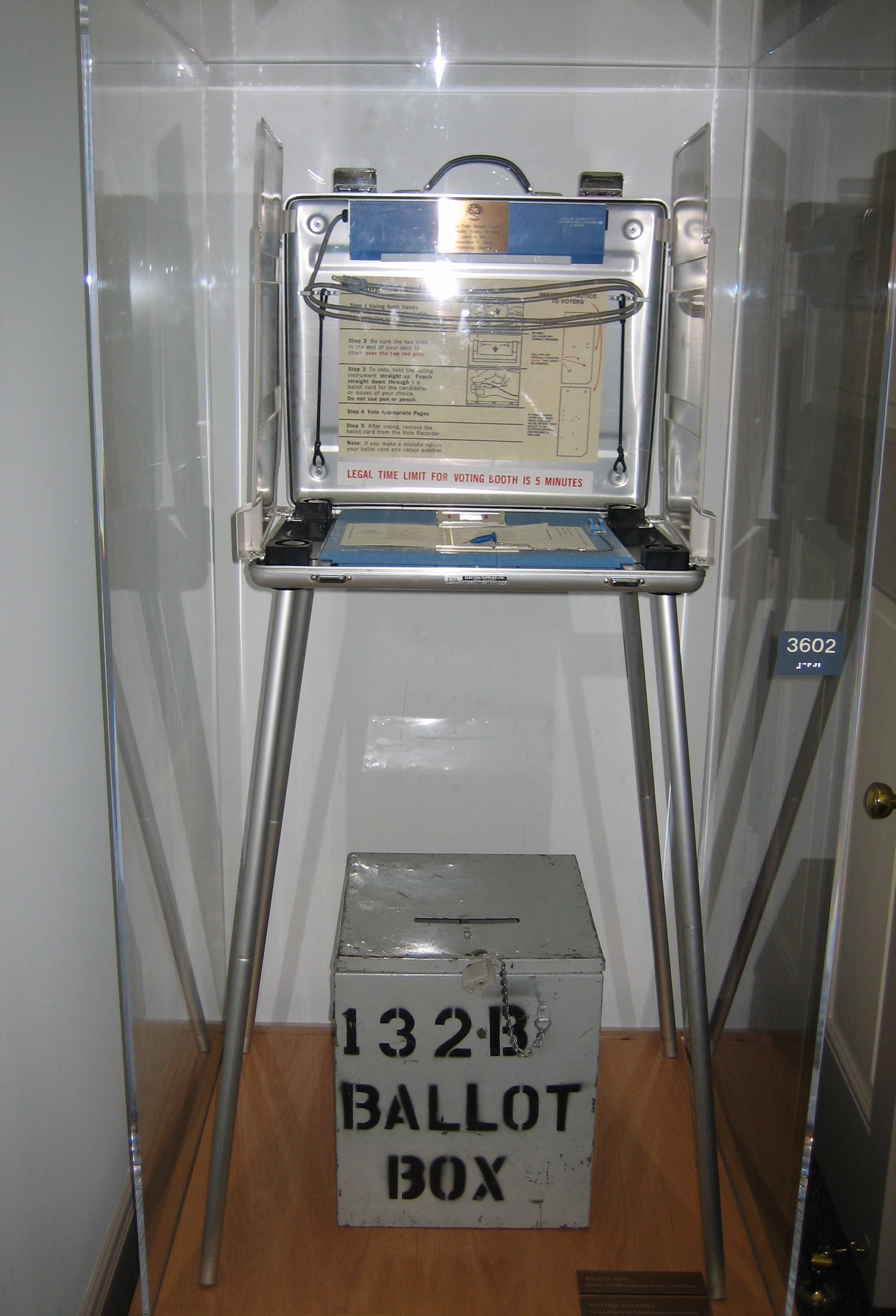 Old Florida State Capitol buildings, Tallahassee, now a museum. Voting stand, ballot, and ballot box from Palm Beach County from the disputed 2000 U.S. Presidential election.